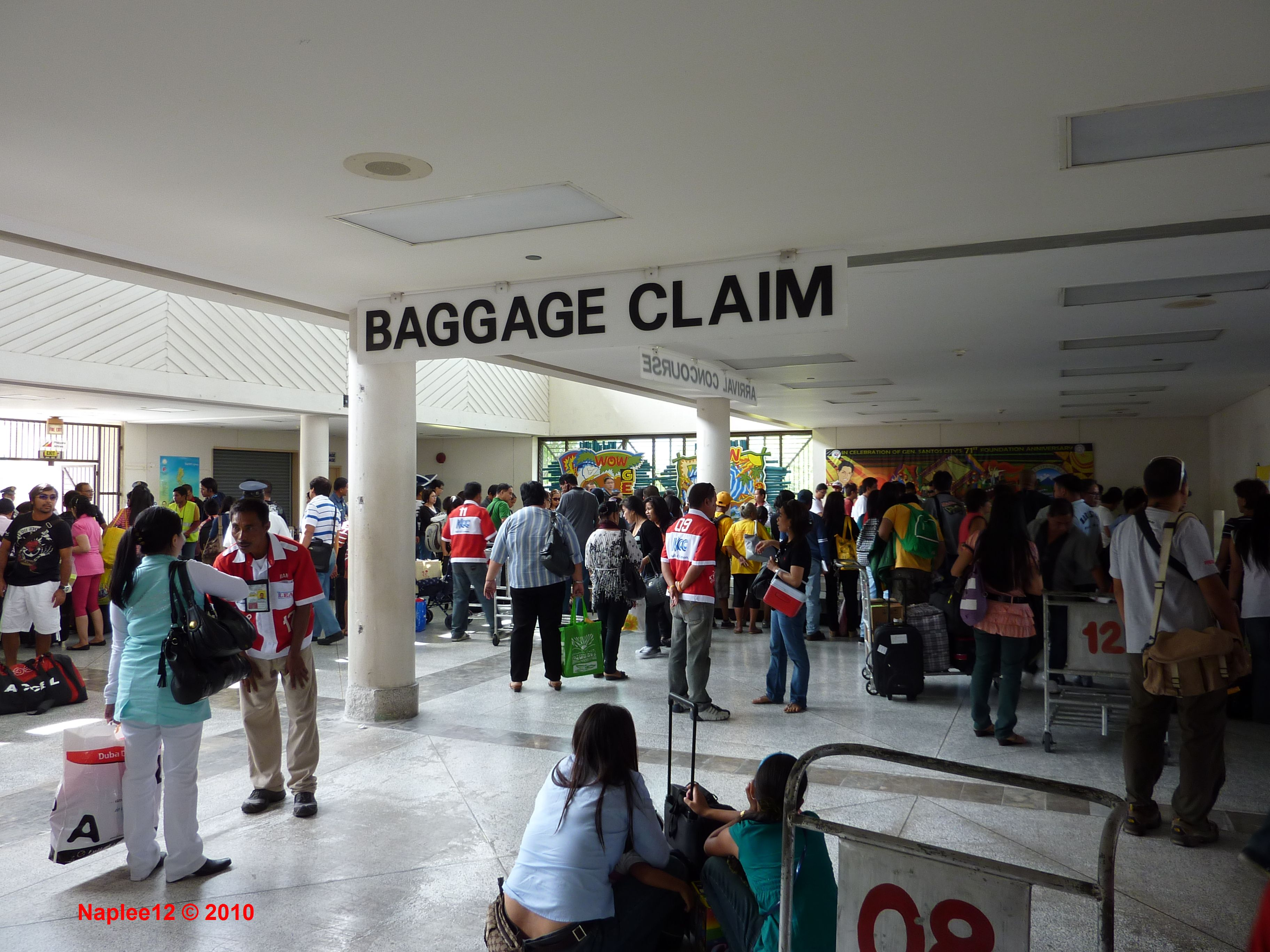 Airport General Santos City